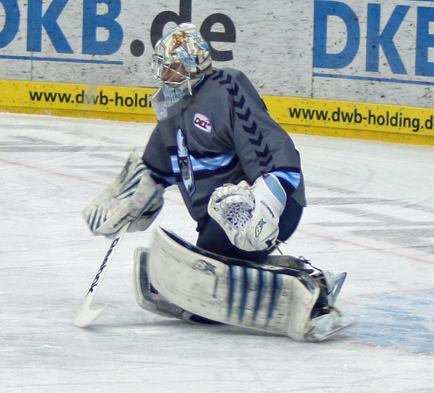 Niklas Treutle skating during pre-game practice for the Hamburg Freezers, at the O2 Arena in Berlin prior to a game against Eisbären Berlin.